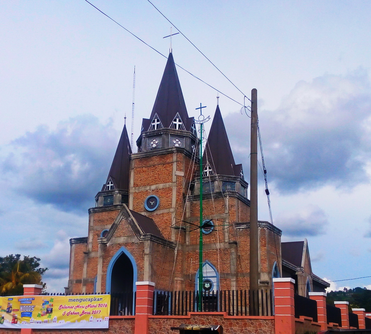 HKBP Pangururan, Church in Pangururan, Samosir